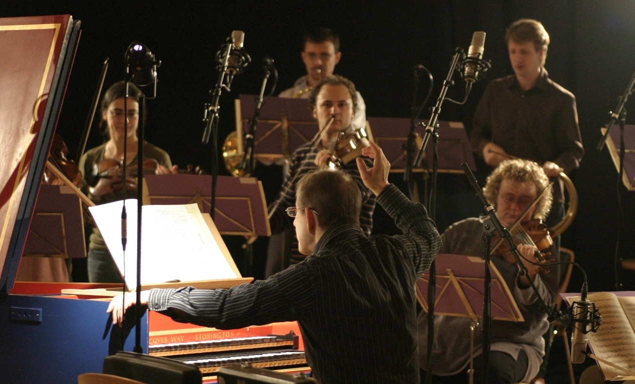 Trevor Pinnock directs the European Brandenburg Ensemble in their recording of Bach's Brandenburg Concertos, Sheffield, December 2006. The violinist on the left is Marie Desgoutte; the violinist in the centre is Bojan Čičić; the viola player sitting is Jane Rogers; the horn players are Etienne Cutajar (left) and Tim Jackson (right).